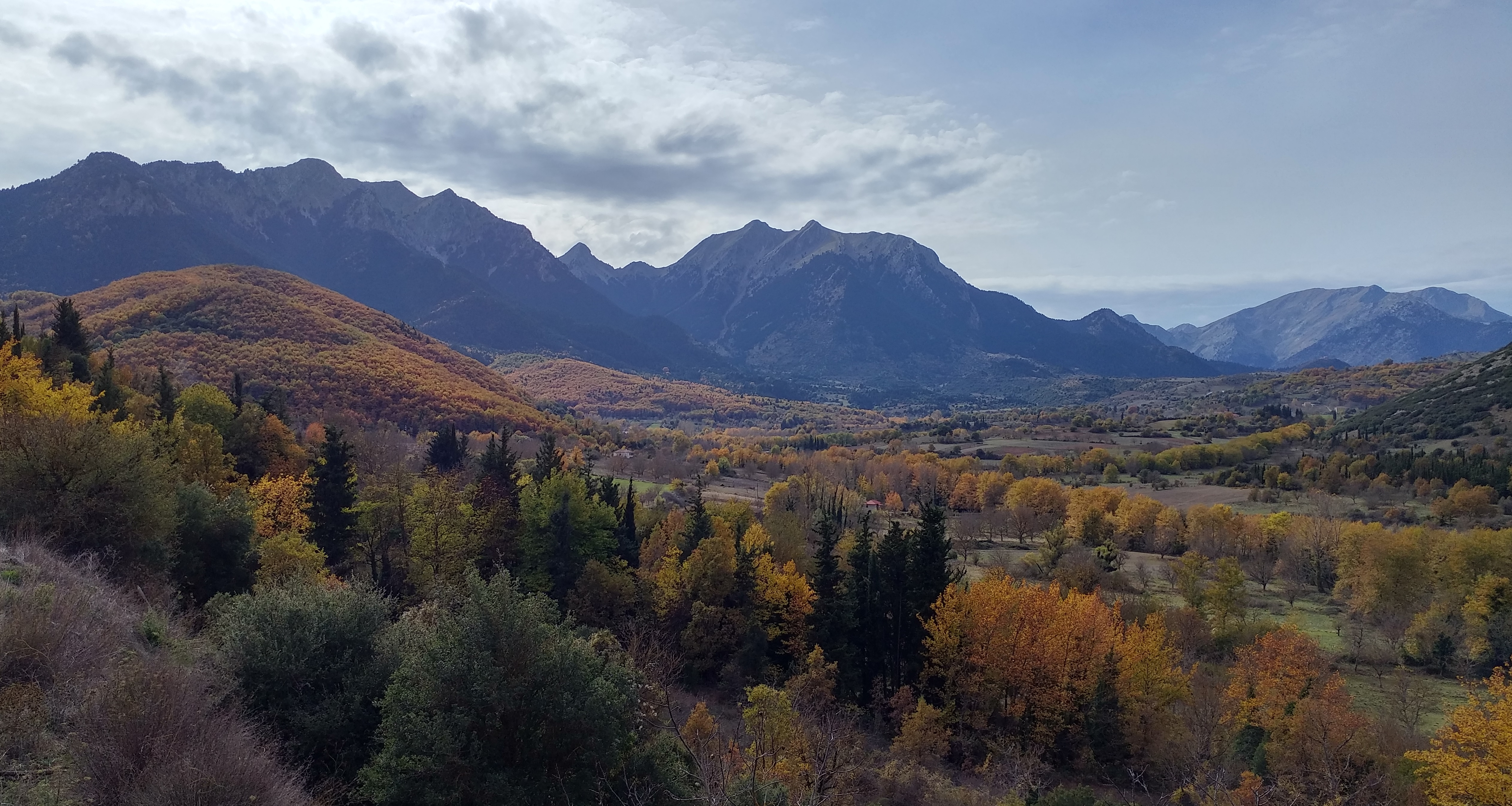 Autumn view of Manesaiikos River valley. In the background Tris Gynaikes Mt. (on the left), Kallifonio Mt. (center), Erymanthos Mt. (on the right) are depicted.